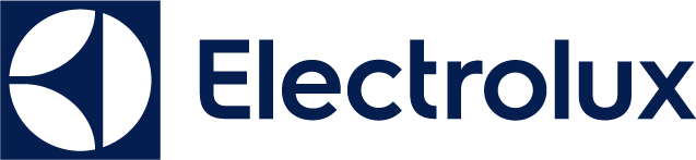 Logo of Electrolux